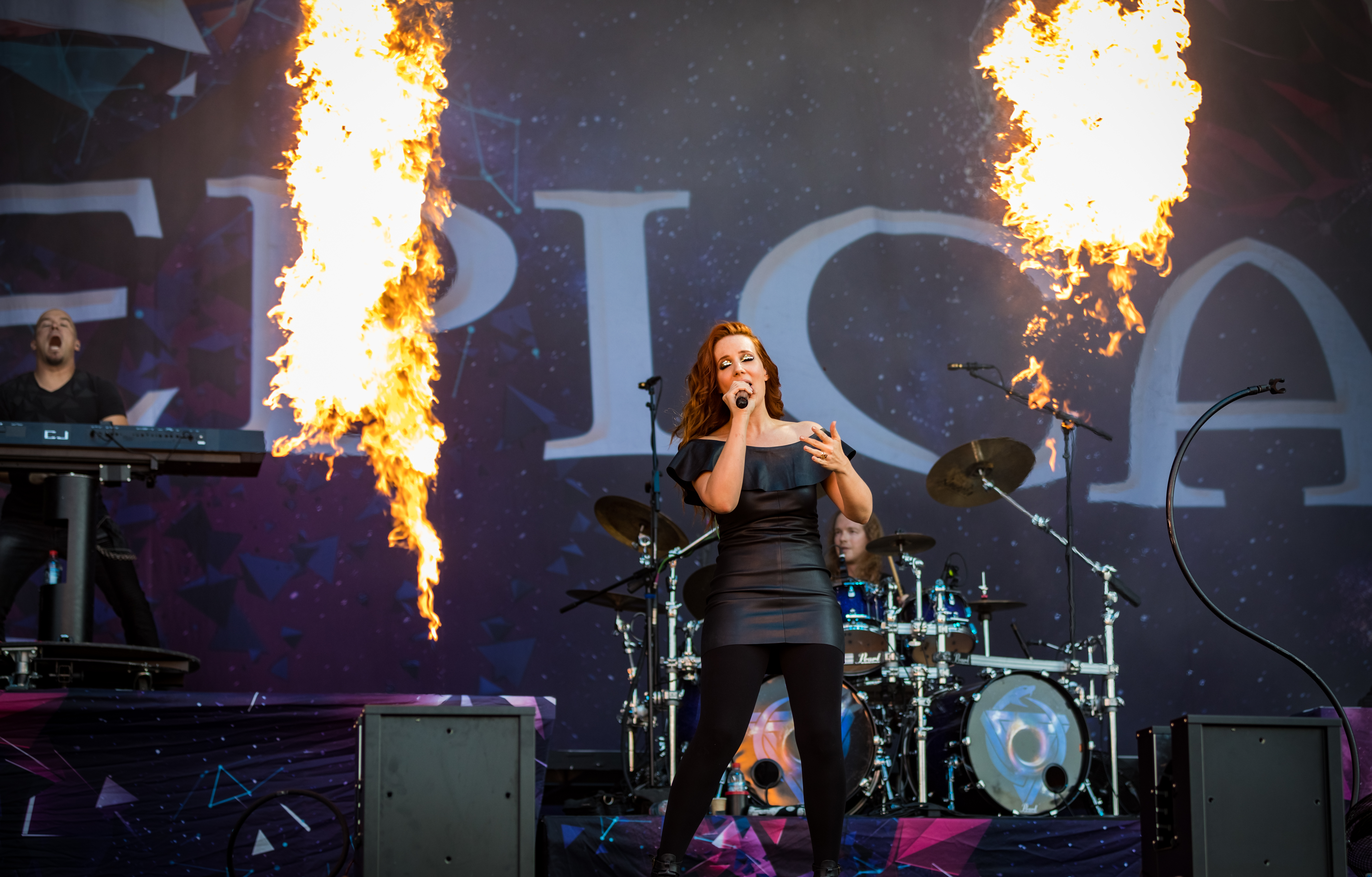 Epica - Wacken Open Air 2018